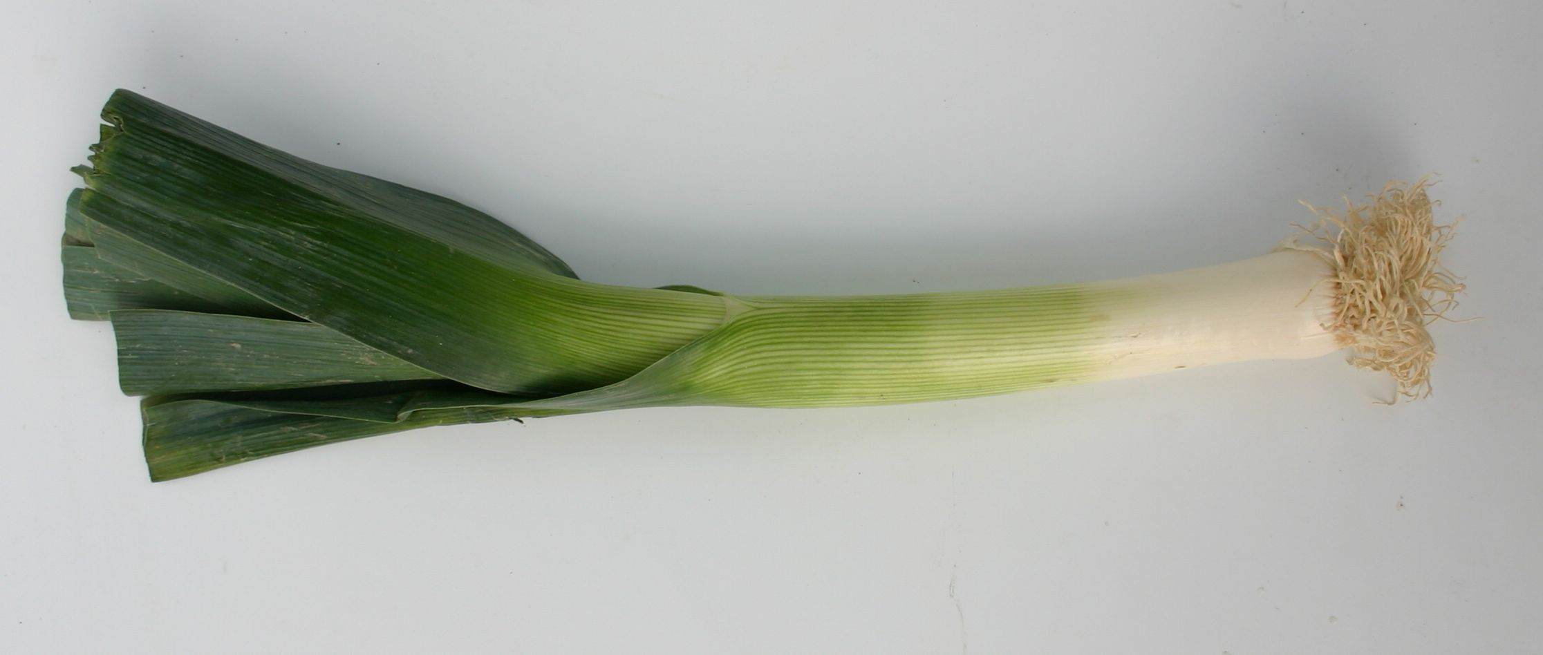 Leek